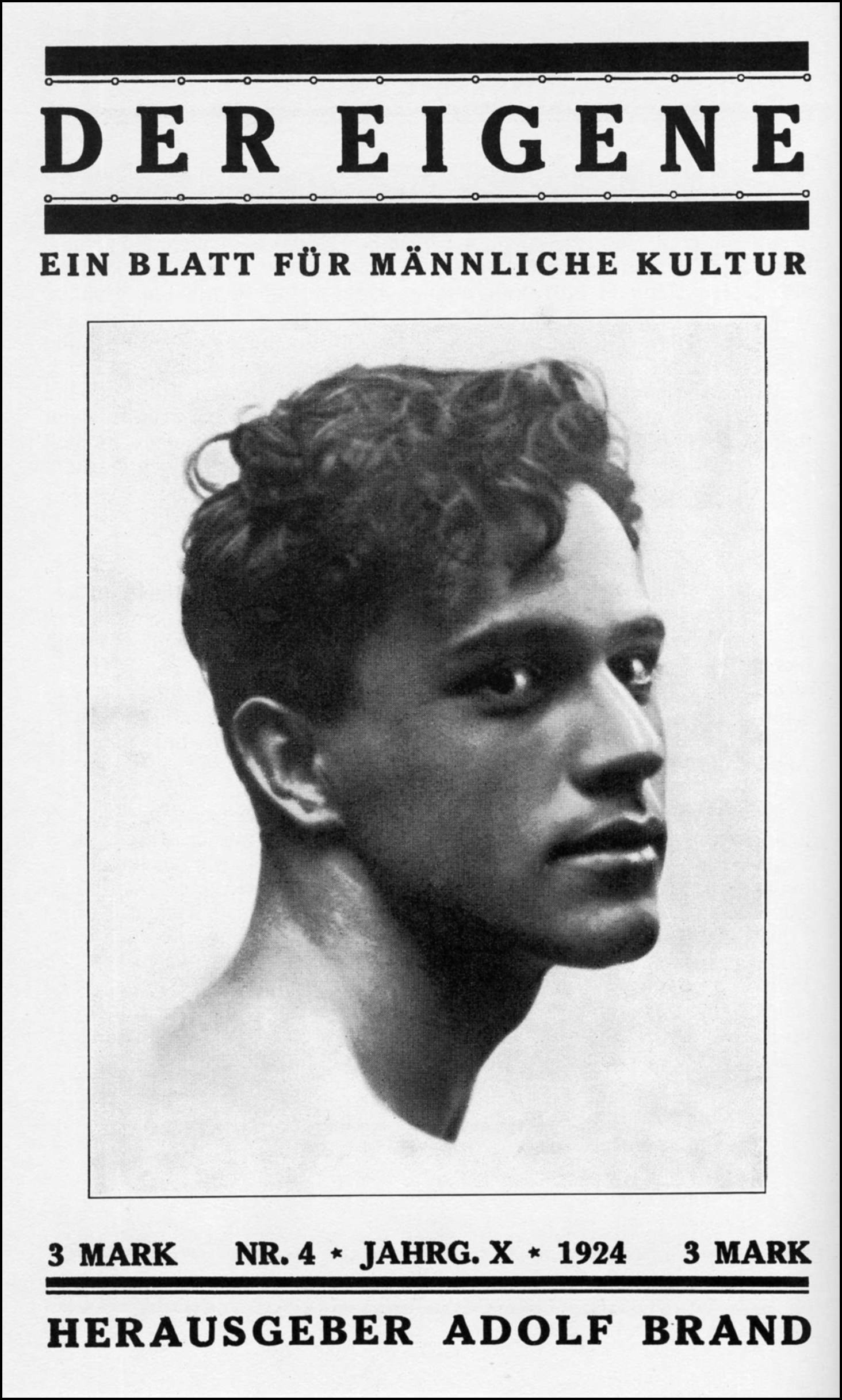 Cover page of the journal Der Eigene, vol. 10, no. 4 (1924)